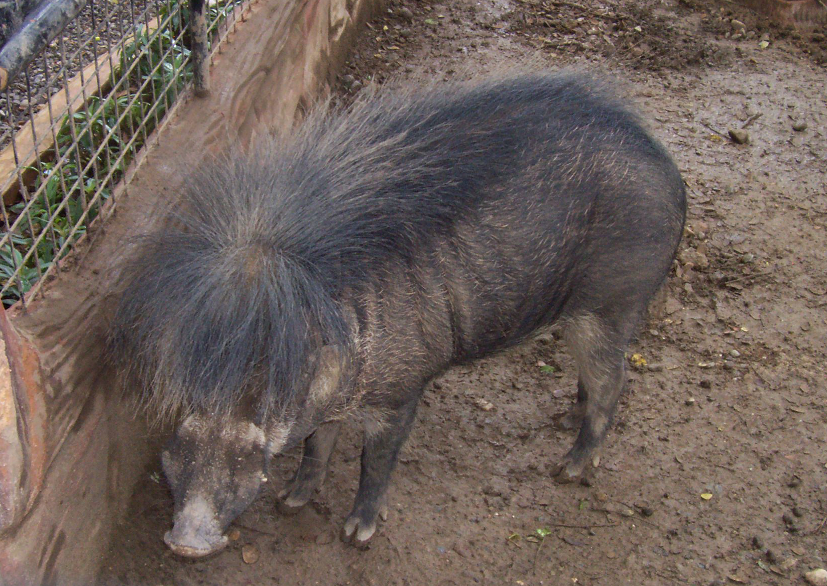 Sus philippensis, philippine warthog, in Crocolandia zoo, Talisay, Cebu.